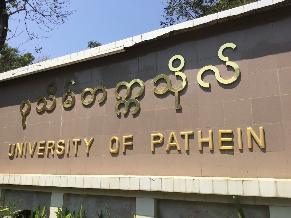 University Of Pathein, Ayeyarwady, Myanmar